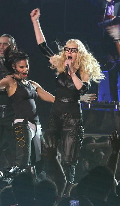 Give It 2 Me Sticky & Sweet Tour 2008